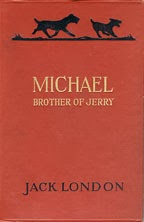 Michael cover